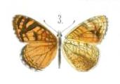 Otto Staudinger, [1894] Hochlandine Lepidoptera Dt. Ent. Z. Iris 7 (1) : 43-100, Plate 2 3. Phyciodes ursula accepted name Tegosa orobia ursula (Staudinger, 1894)